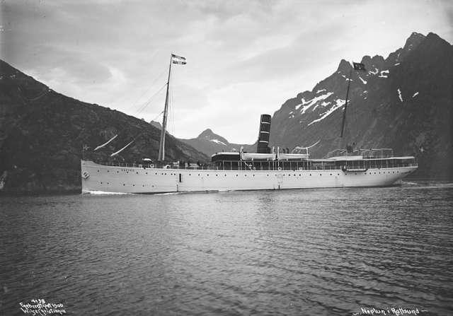 Norwegian passengership DS Neptun (built in 1890) in Raftsundet. This ship sailed in the coastal express service (hurtigruten) between 1919 and 1921. Norsk (bokmål): Passasjer- og hurtigruteskipet DS «Neptun» i Raftsundet. Bildet er tatt før hurtigrute-karrieren.